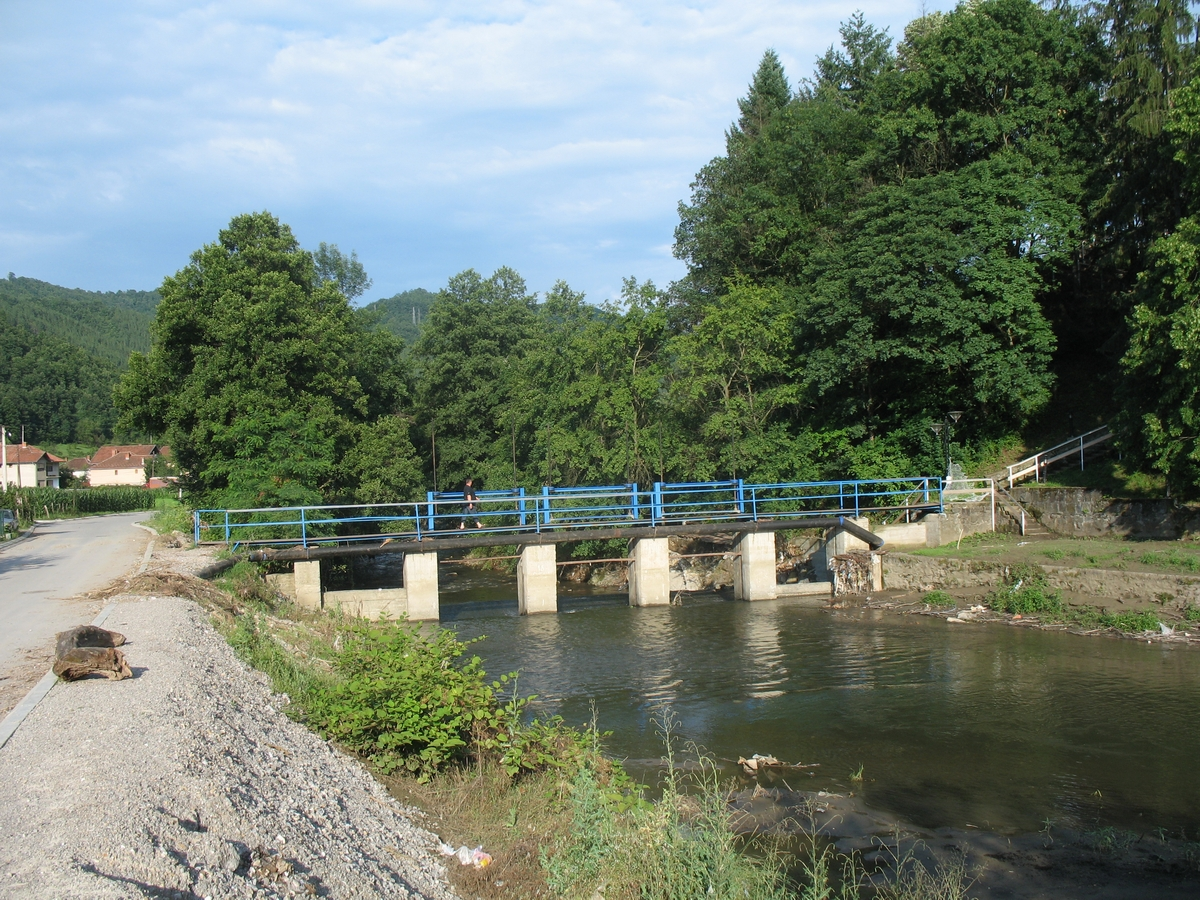 Walking bridge over Rasina river in Brus, Serbia.